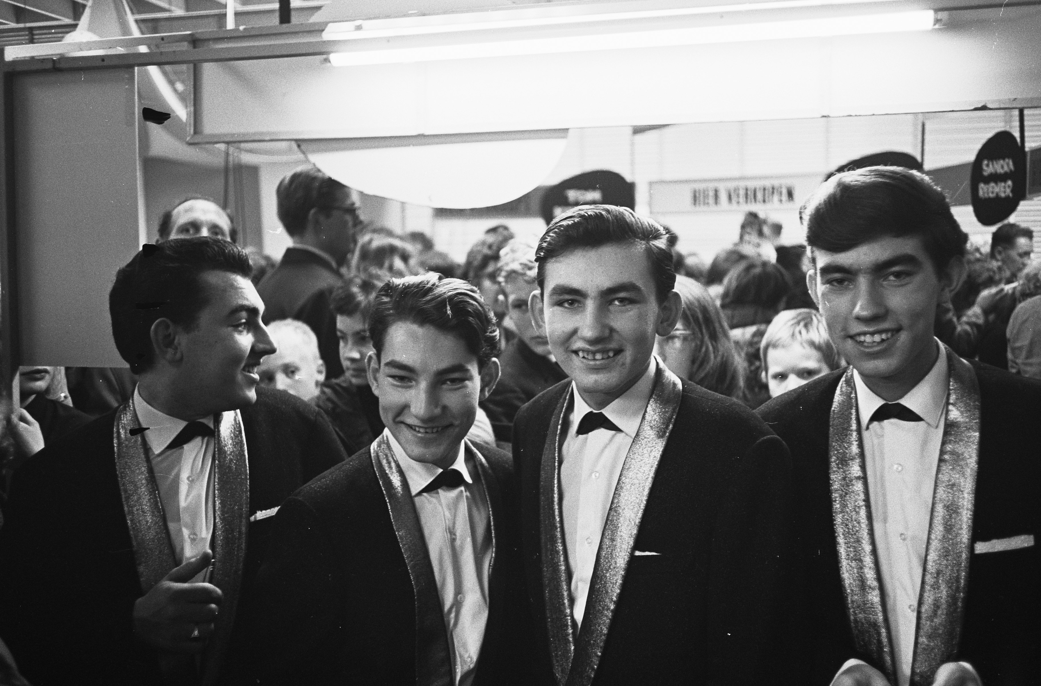 The Hurricane Strings from Rotterdam Overschie (The Netherlands) at the Bijenkorf in Rotterdam, 10 Oct. 1963. The Hurricane Strings were founded in 1960. They were four Noorlander brothers: Fred ‘Freddy’(piano, organ, clavioline); Theo ‘Frank’ (lead guitar); Ybert ‘Woody’ (bass- and rhythm guitar) and Wouter ‘Danny’ (drums and guitar).